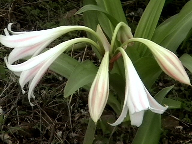 Crinum latifolium (Pink Striped Trumpet Lily)